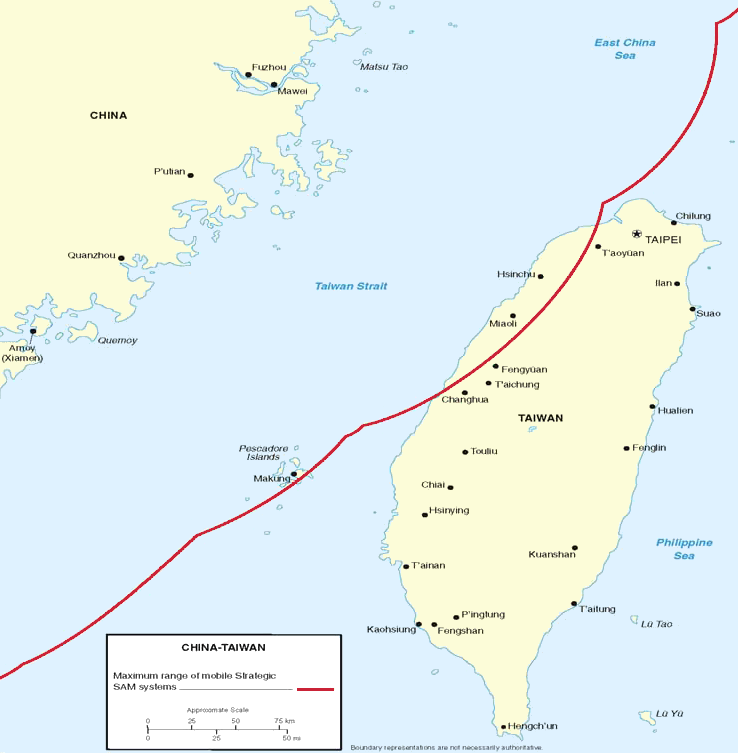 Figure 7. Surface-to-Air Missile Coverage over the Taiwan Strait. Note: This map depicts notional coverage provided by China’s SA-10, SA-20 SAM systems, as well as the soon-to-be acquired S-300PMU2. Actual coverage would be non-contiguous and dependent upon precise deployment sites.